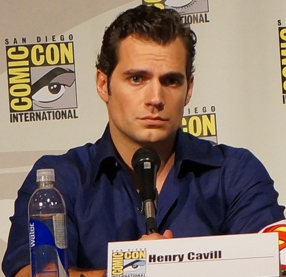 Henry Cavill at the Man of Steel panel at the 2013 San Diego Comic Con International on uly 20, 2013